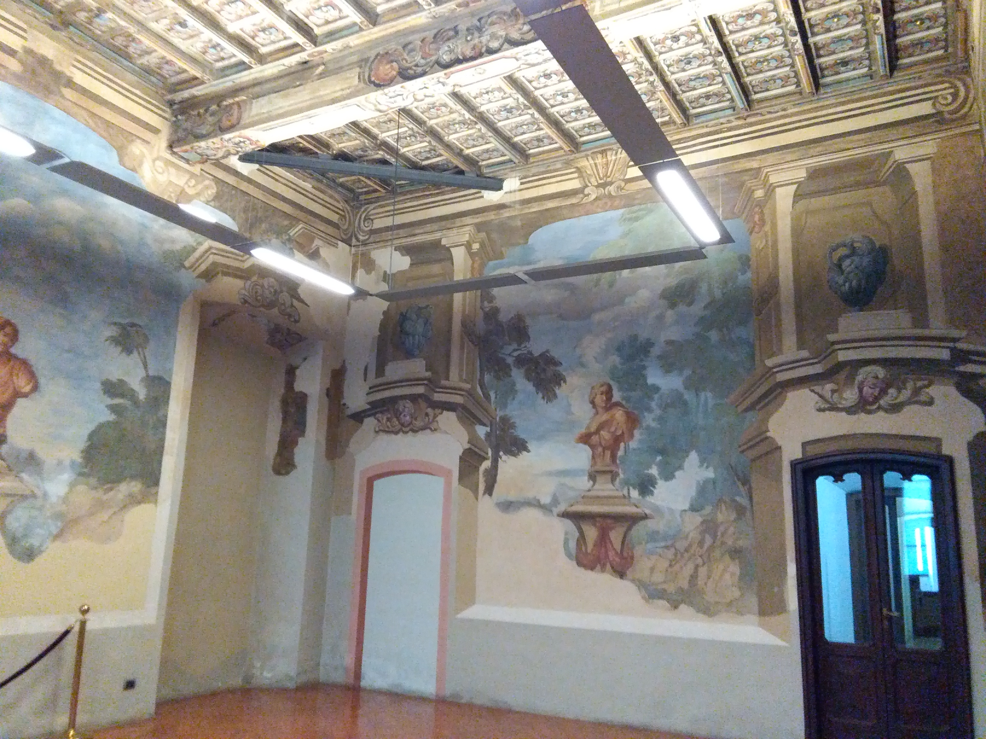 Busti's_room